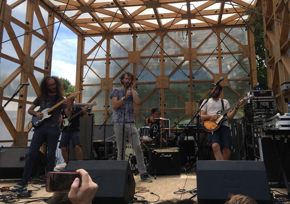 Pinguini Tattici Nucleari at Sziget Festival 2017.